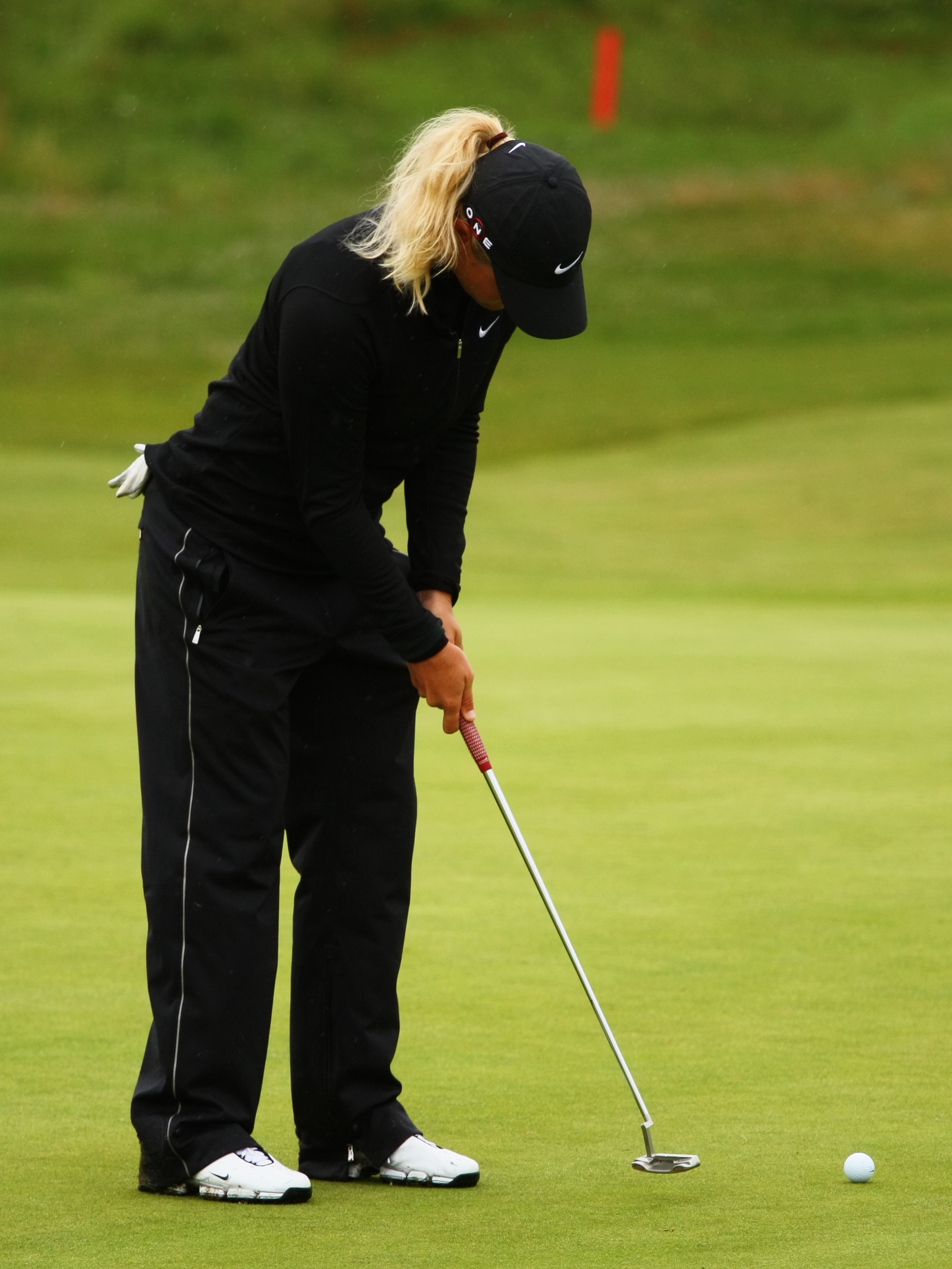 SOUTHPORT, UNITED KINGDOM - JULY 27: Suzann Pettersen of Norway putts on the 8th green during pro-am round before 2010 Ricoh Women's British Open held at Royal Birkdale on July 27, 2010 in Southport, England. (Photo by Wojciech Migda)